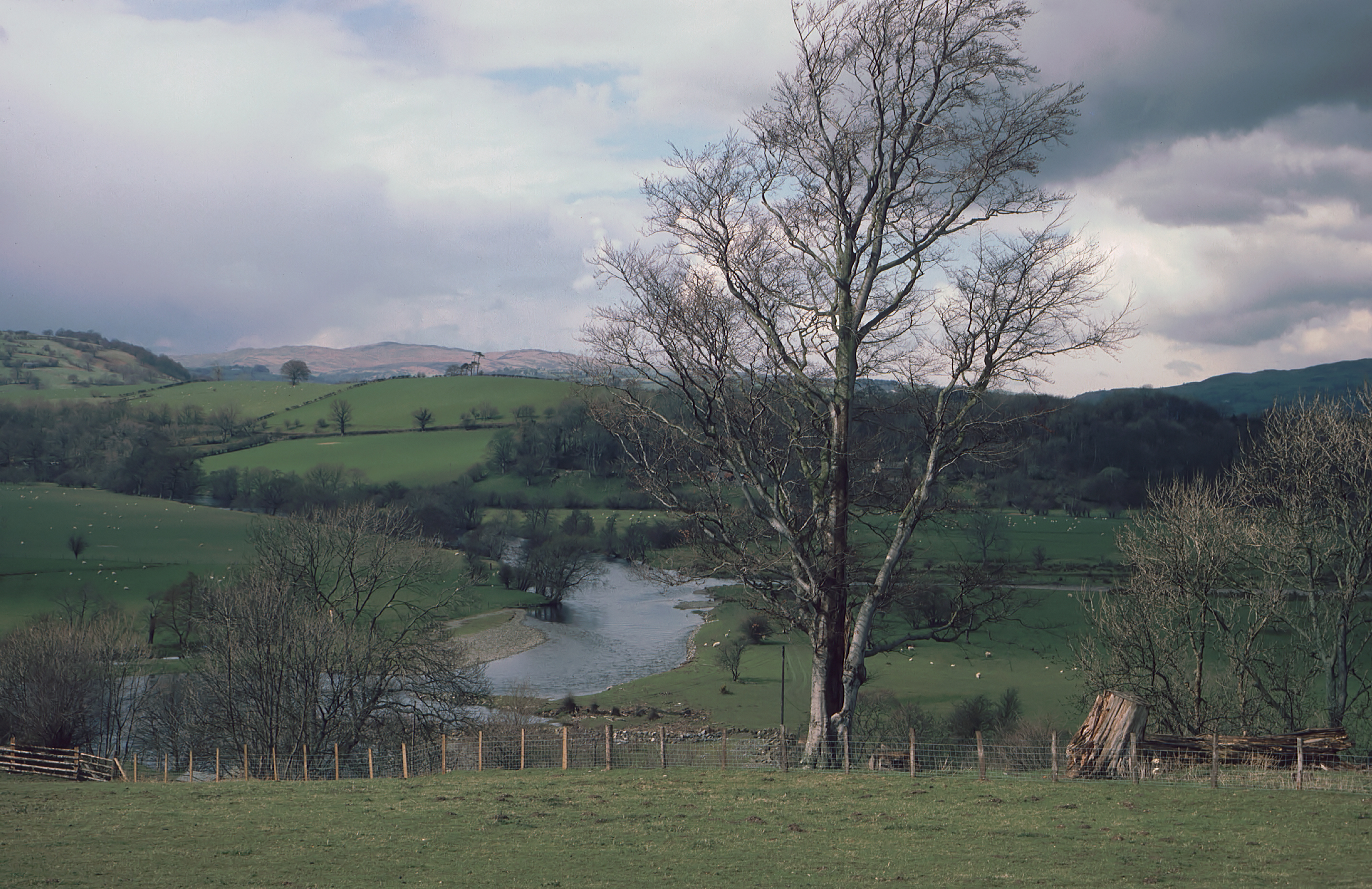 Landscape near the village of Foel, situated in tbe county of Powys in Wales.